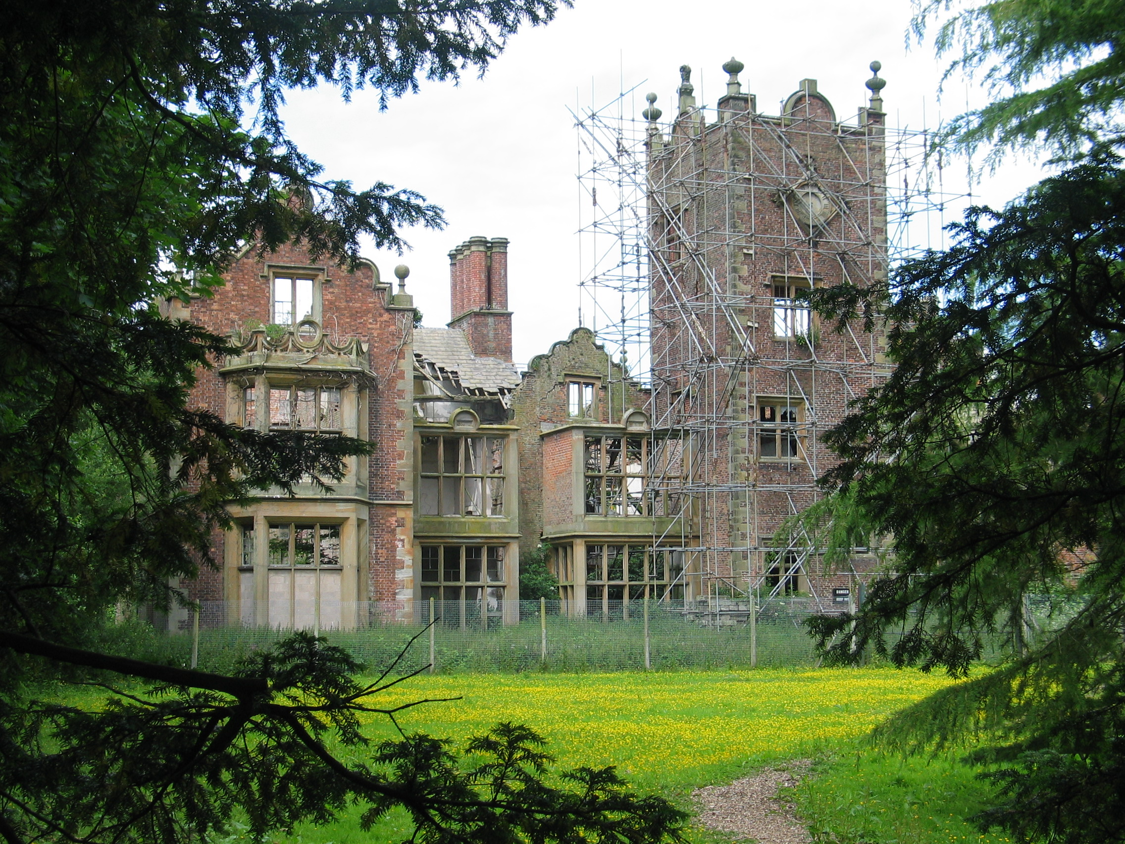 A View of the Bank Hall Tower Lawn covered in buttercups, May 2008